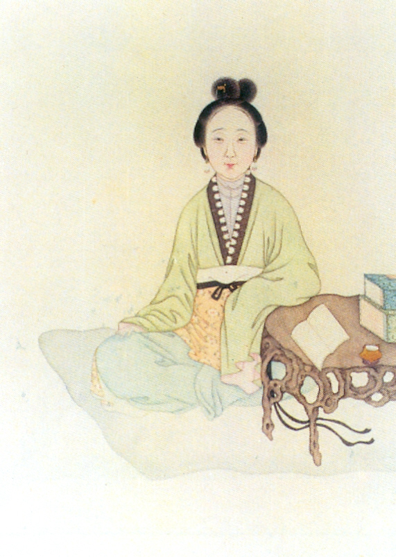 Portrait of Chen Yuanyuan (1624–1681), concubine of Wu Sangui (1612–1678) renowned for her beauty.